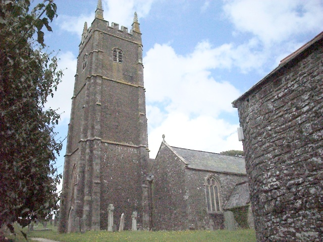 West tower of St George's parish church, Monkleigh, Devon, seen from the southwest